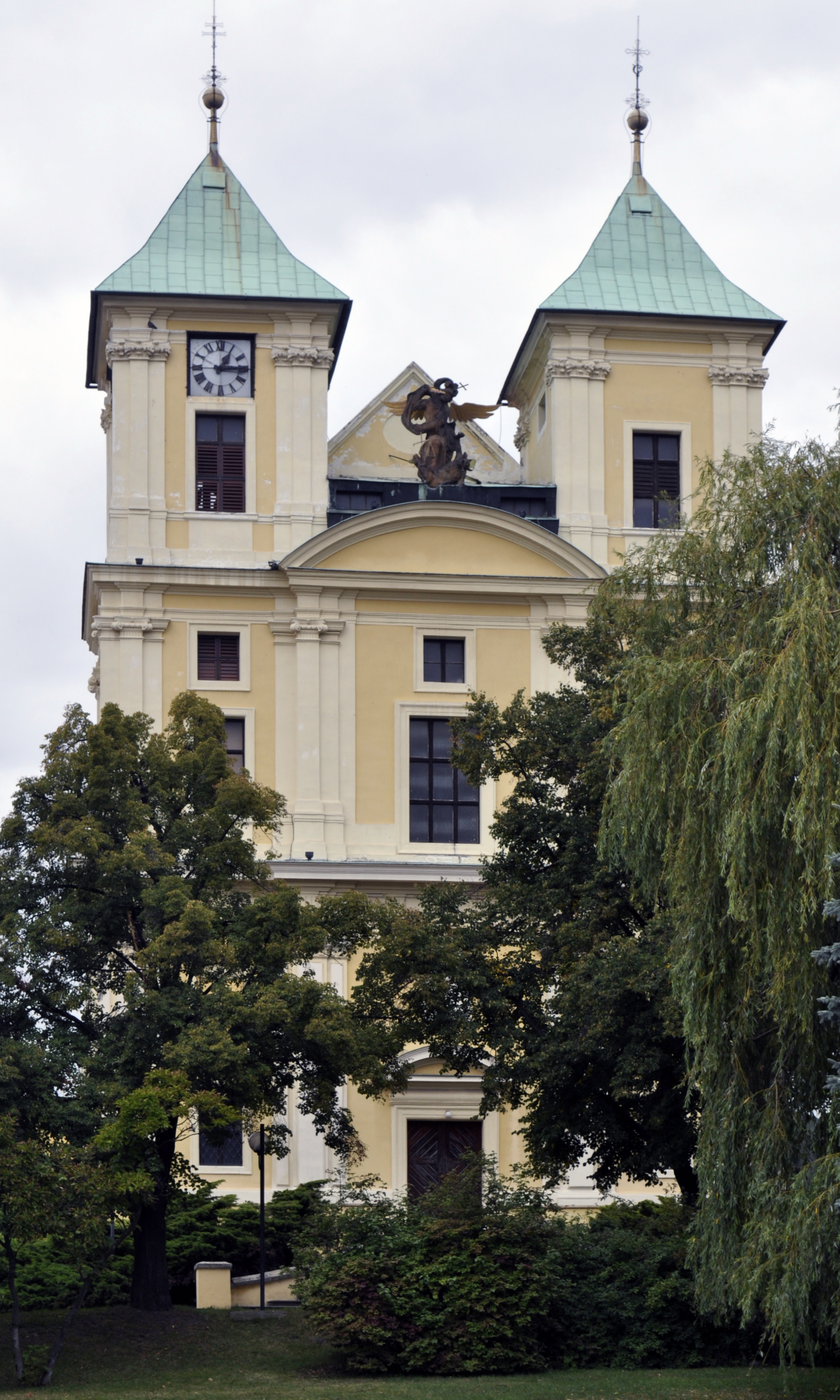 Archangel Michael Church in Litvínov, Masaryk Square, Litvínov